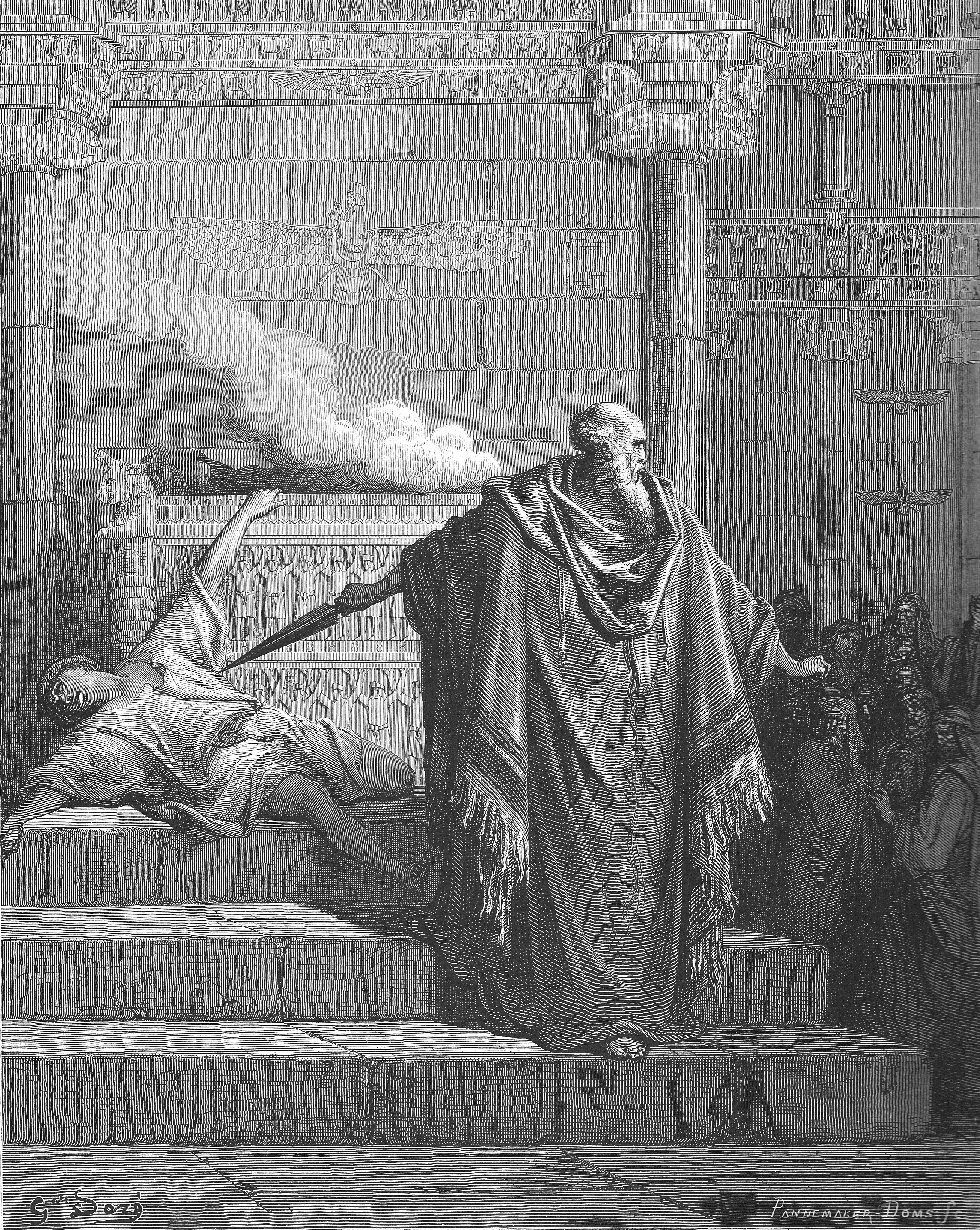 Mattathias and the Apostate (1 Macc. 2:1-25)